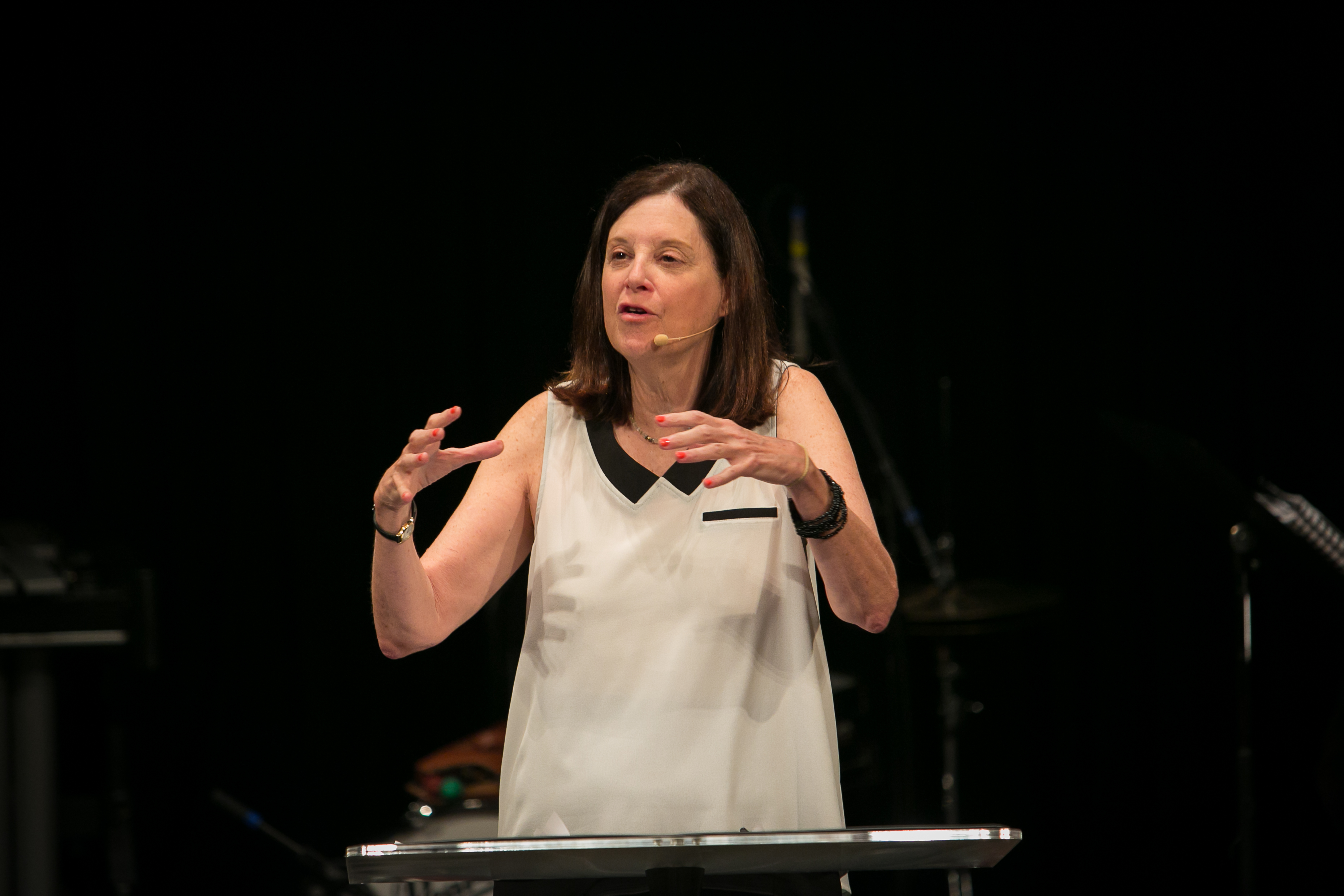 PopTech City Resilient conference at Brooklyn Academy Of Music (BAM). (Photo by Agaton Strom)